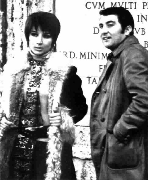 Italian actors Claudia Caminito and Pino Caruso